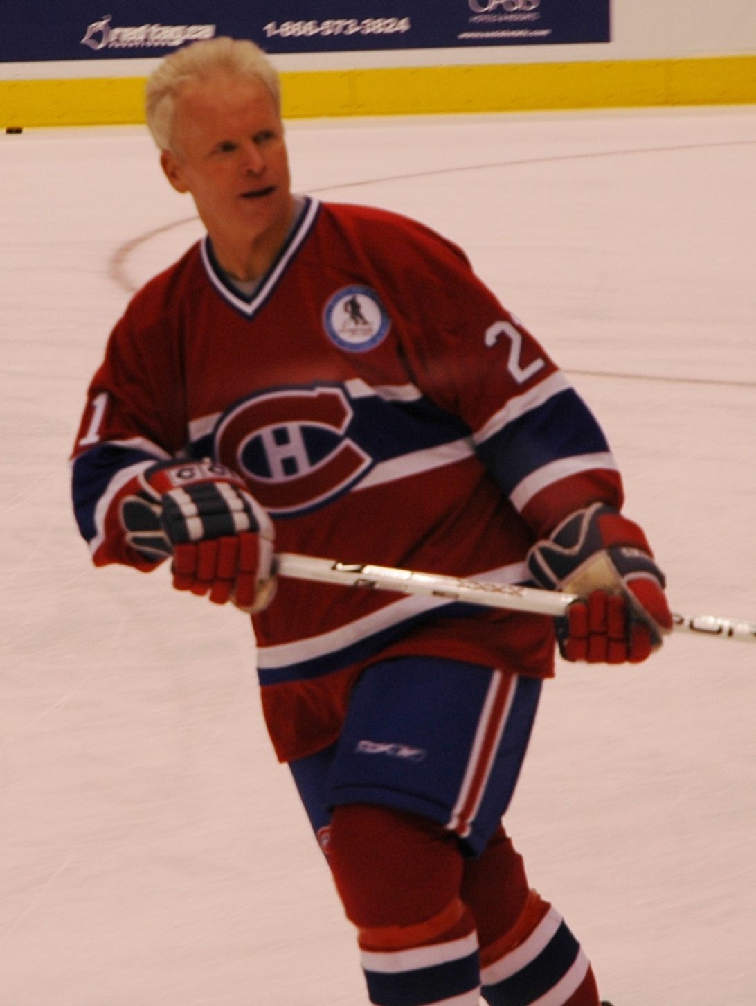 Doug_Jarvis played with Montreal Canadiens Alumni at the Legends Clasic in Toronto